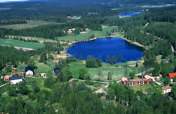 Örträsksjön in Nora municipality, Örebro county, Sweden